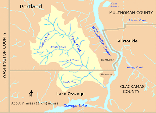 Map of Tryon Creek watershed in Multnomah and Clackamas counties, Oregon, United States. The creek begins in Portland, Oregon, and flows into the Willamette River between the city of Lake Oswego and the unincorporated community of Briarwood.